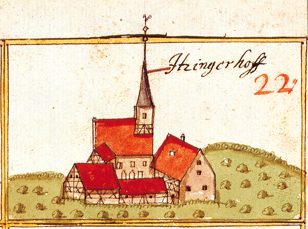 View of Itzinger Hof, abandoned place near Neckarwestheim, from the forest register books created by Andreas Kieser